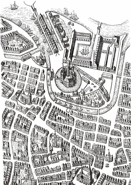 Deatil of old map of Copenhagen, Denmark, showing the island Slotsholmen in the city centre. Seen are Copenhagen Castle, Børsen and the naval harbour. Part of Peder Hansen Resens map of Copenhagen